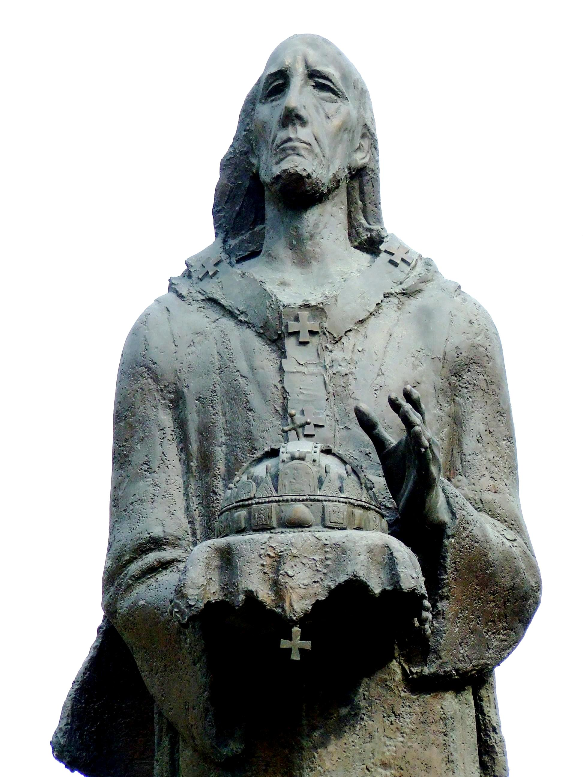 Statue of Saint Astrik in Kalocsa (György Benedek, 2000)